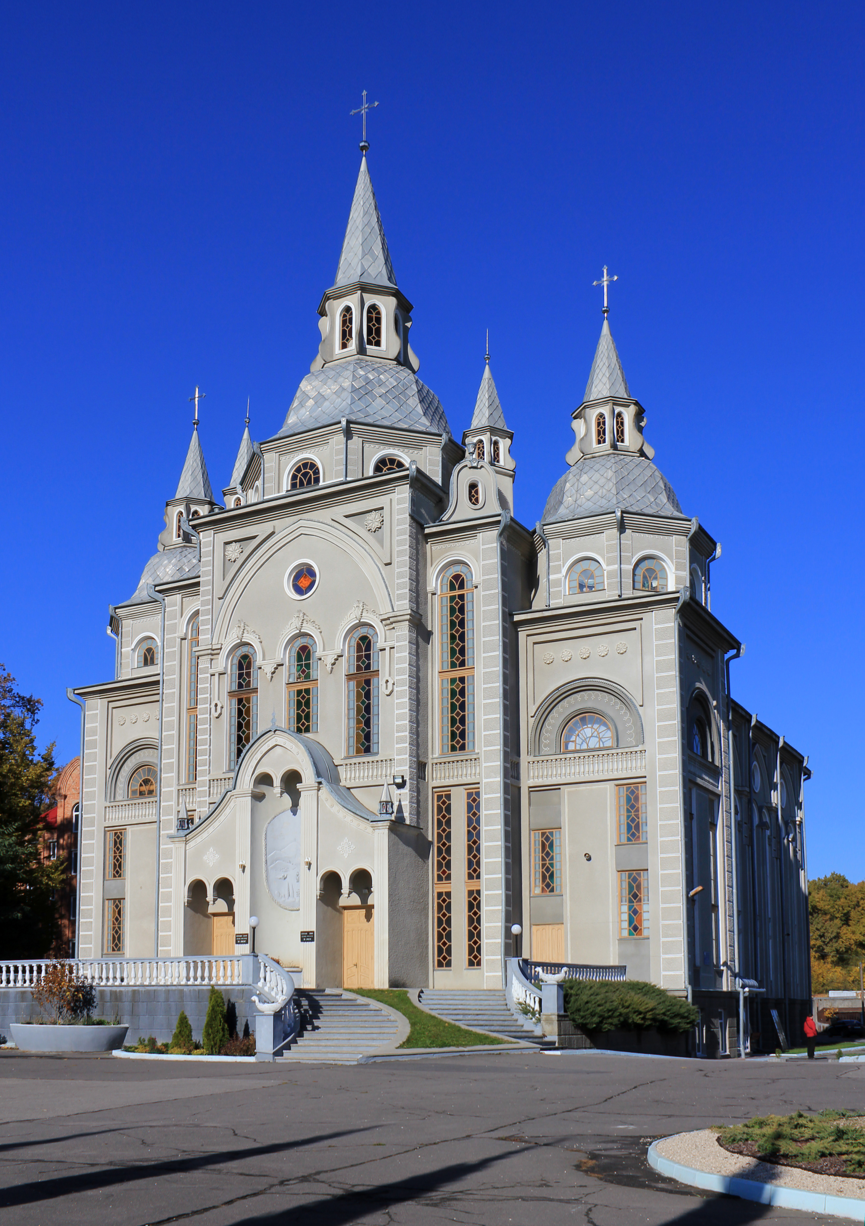 Evangelical Christians and Baptists church The House of the Gospel. Ukraine, Vinnitsa.